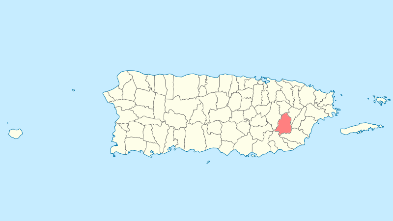 Municipal locator of Puerto Rico